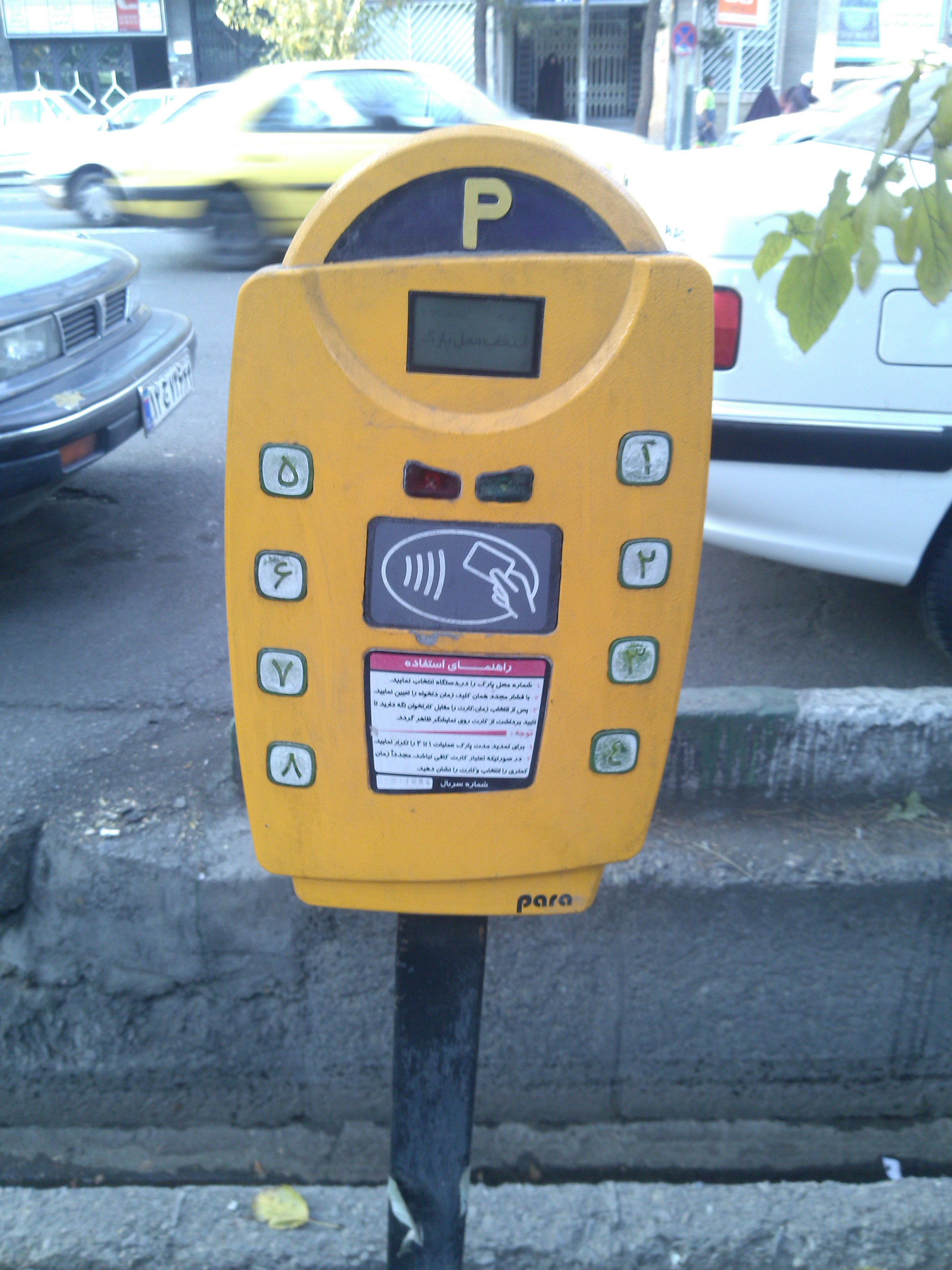 Parking meters in Tehran - Iran